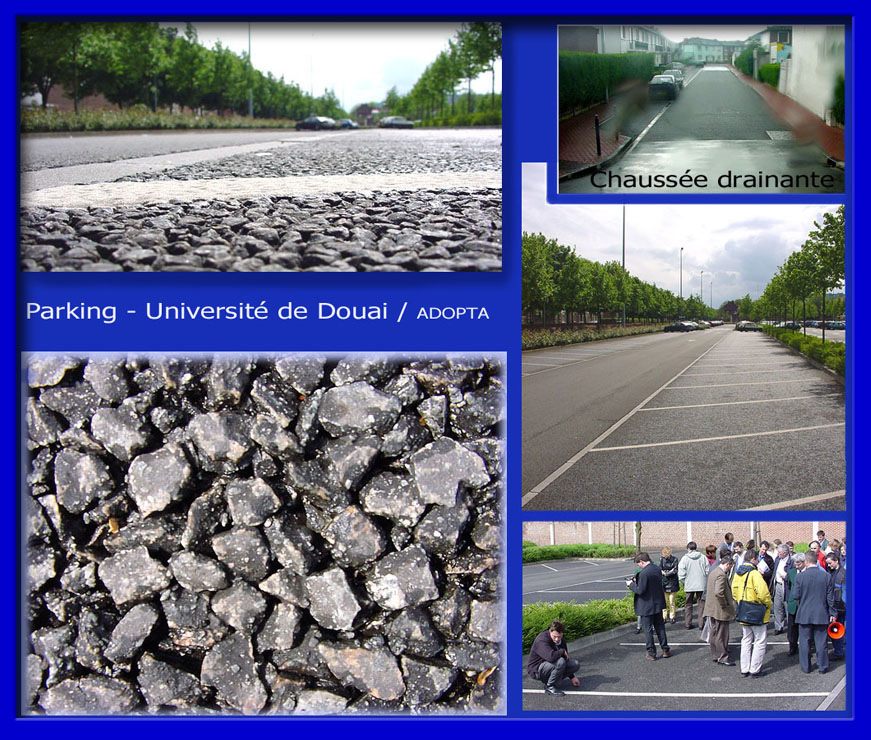 Alternative technics of asphalting to prevent soil sealing.